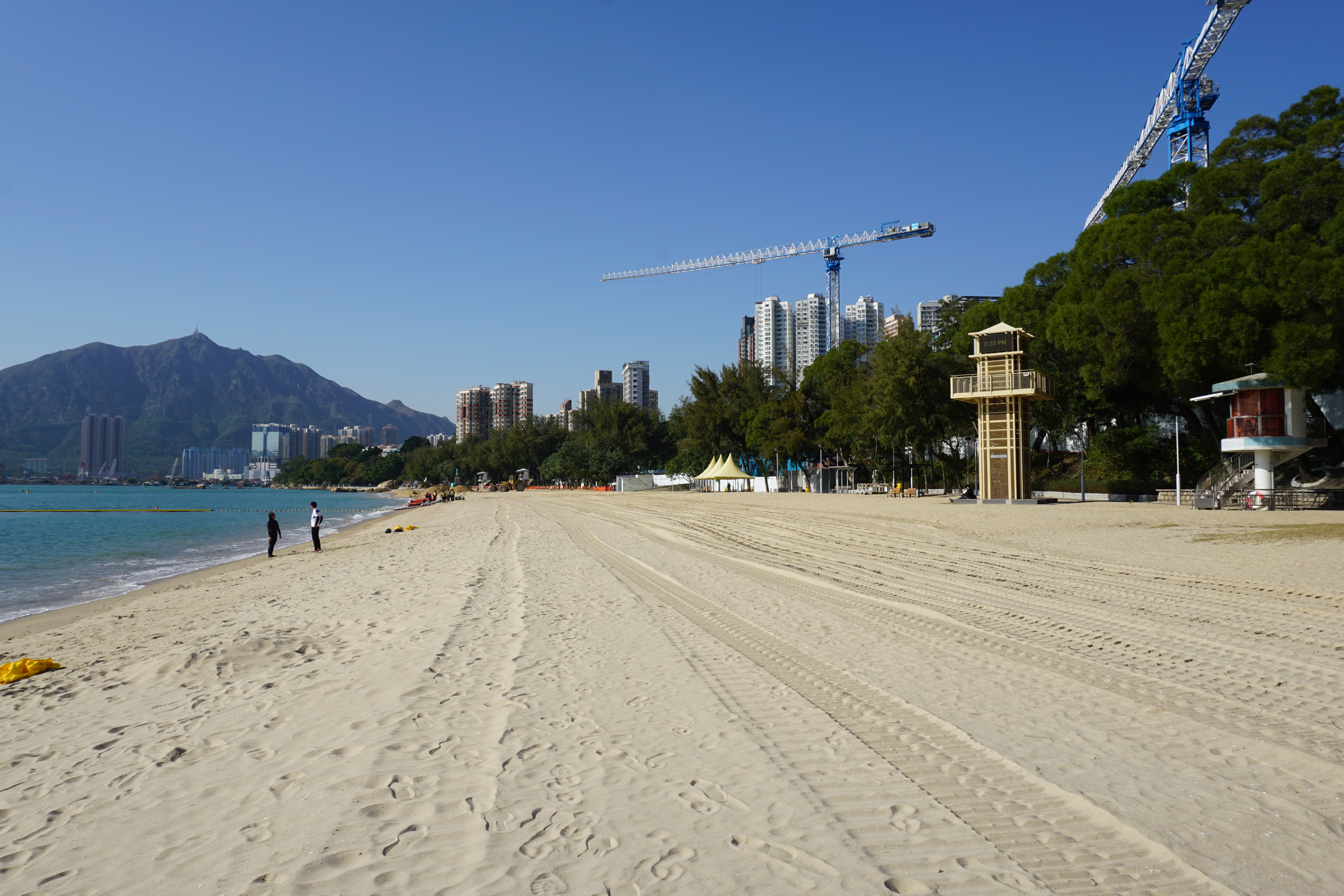 Cafeteria New Beach in Tuen Mun, Hong Kong.